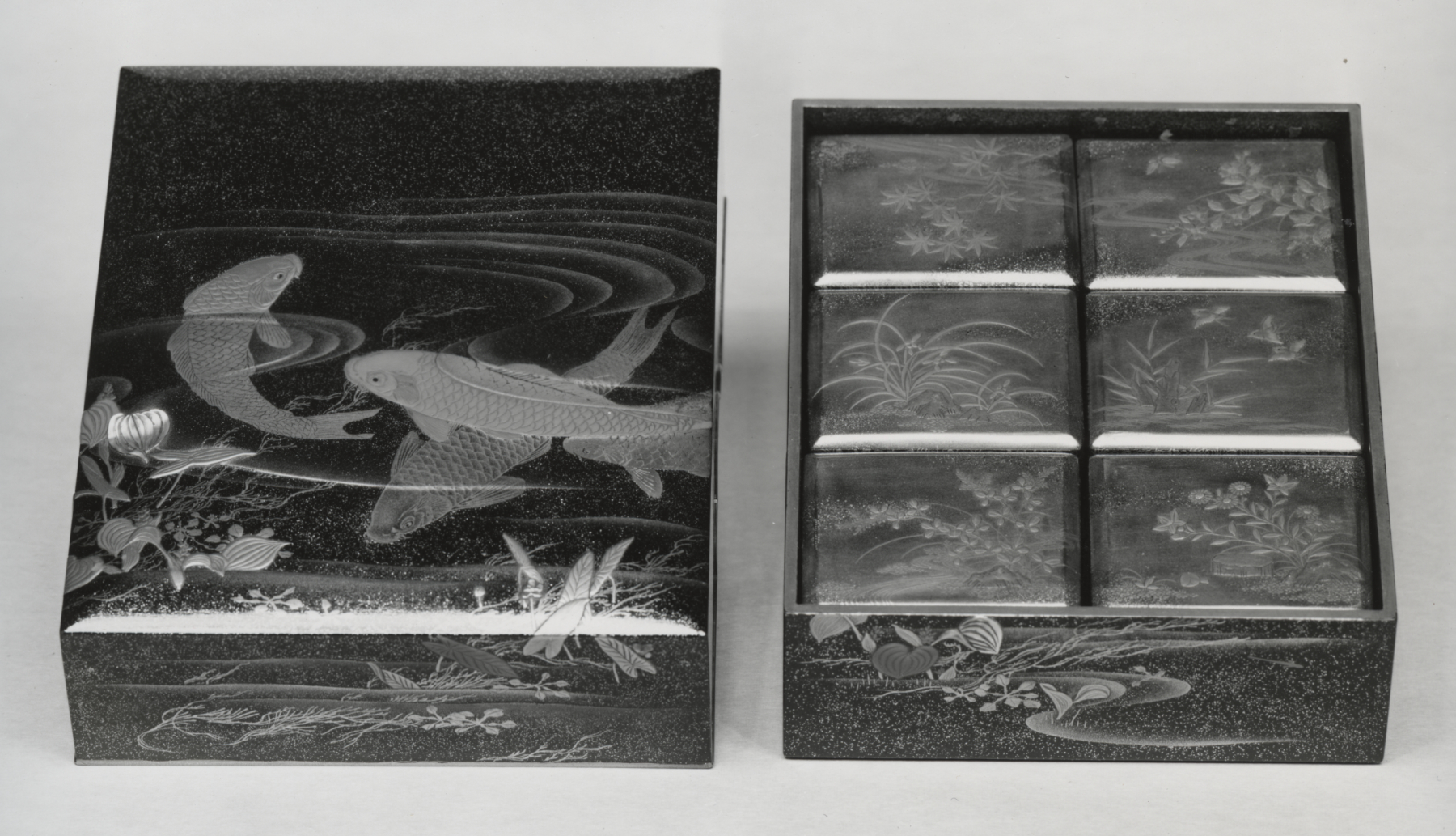 A black and gold lacquer rectangular "ko bako" with overlapping lid cusped midway on two long sides; interior with six small covered boxes. On top of lid are four carp in a stream with low growth of water plants; interior boxes have designs on top of lids of streams and ponds with various groups of trees and flowers, bird and butterflies; exterior sides of covered boxes with four different patterns of arabesques, diaper ("asanoha"), brocade, and swastika. Design on top of lid in gold and brown "togidashi" of various shades with fish in "hiramakie" on gold and red lacquer; flowers in gold and red lacquer with inlaid aogai; background of black "roiro" with "nashiji." Six small interior boxes with "hiramakie" in gold, interior and bottoms with "nashiji;" interior of main box with dense "nashiji" and applied gold and silver foils; all in highly polished lacquer, rims with "kinji."